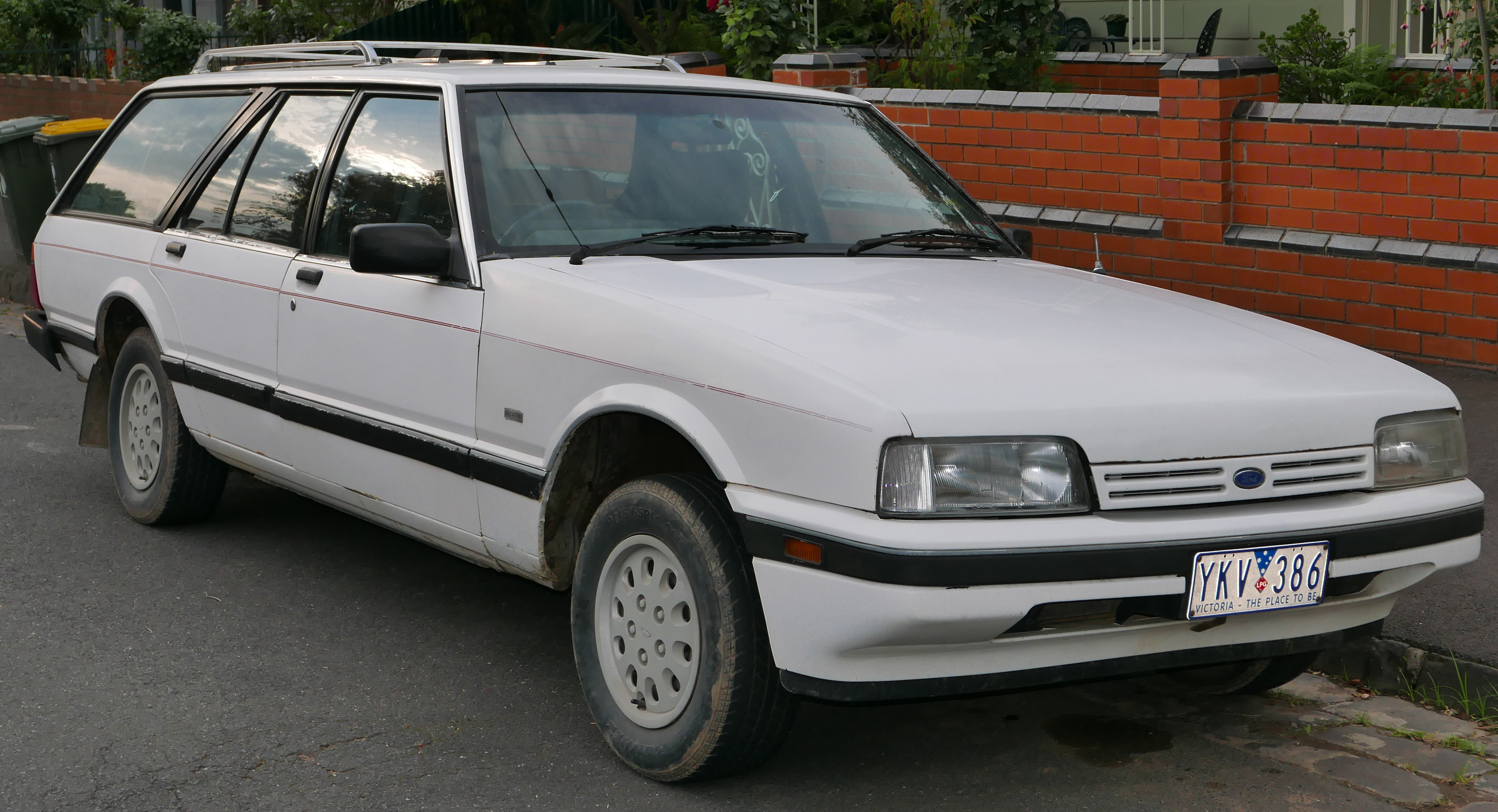 1987 Ford Falcon (XF) GL station wagon. Photographed in Brunswick, Victoria, Australia. Vehicle registration enquiry results Jurisdiction Victoria Registration YKV386 Chassis code Not available Engine code JL42LJ37277 Compliance date Not available Year of manufacture 1987